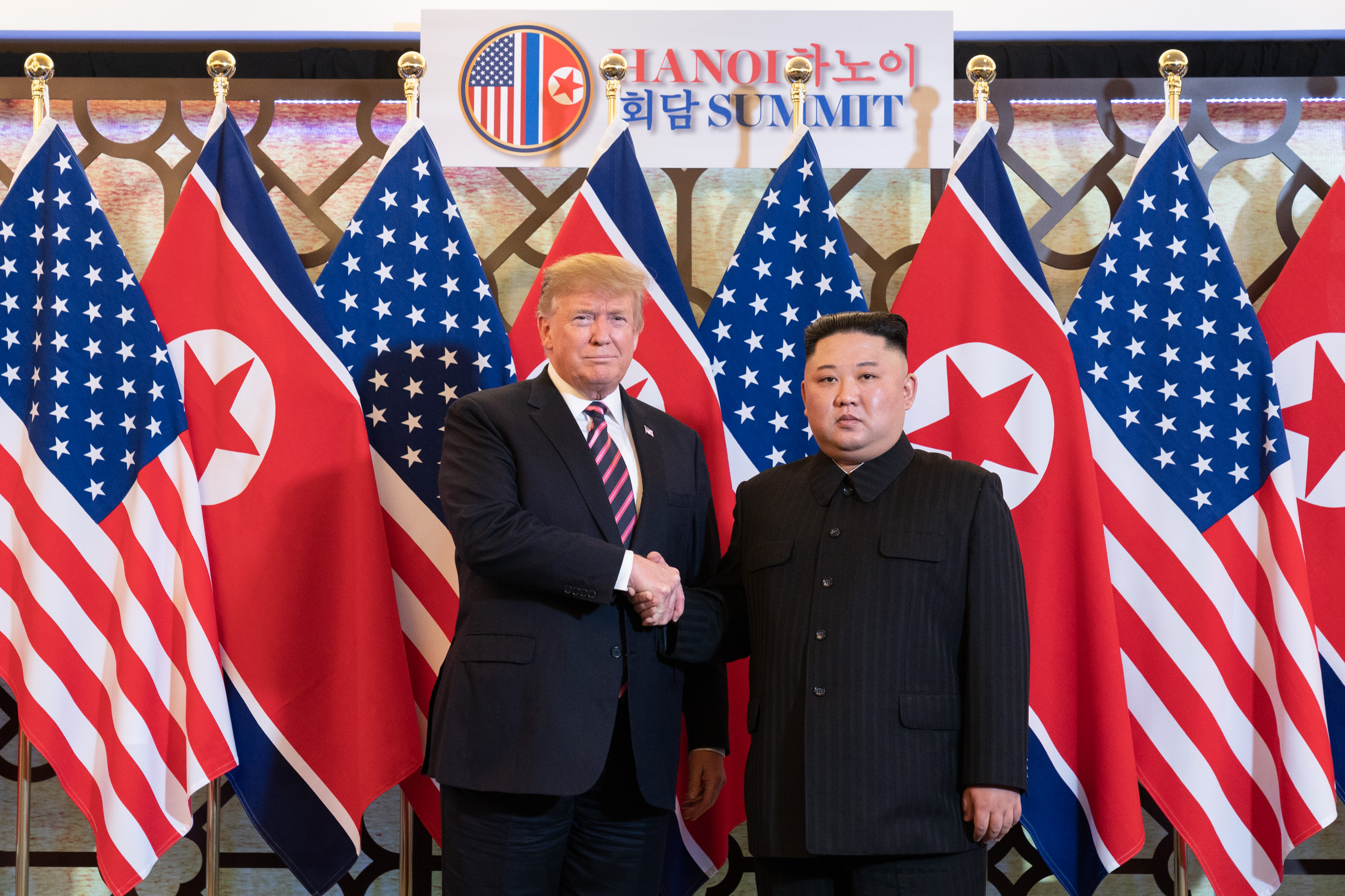 President Donald J. Trump is greeted by Kim Jong Un, Chairman of the State Affairs Commission of the Democratic People’s Republic of Korea Wednesday, Feb. 27, 2019, at the Sofitel Legend Metropole hotel in Hanoi, for their second summit meeting. (Official White House Photo by Shealah Craighead)